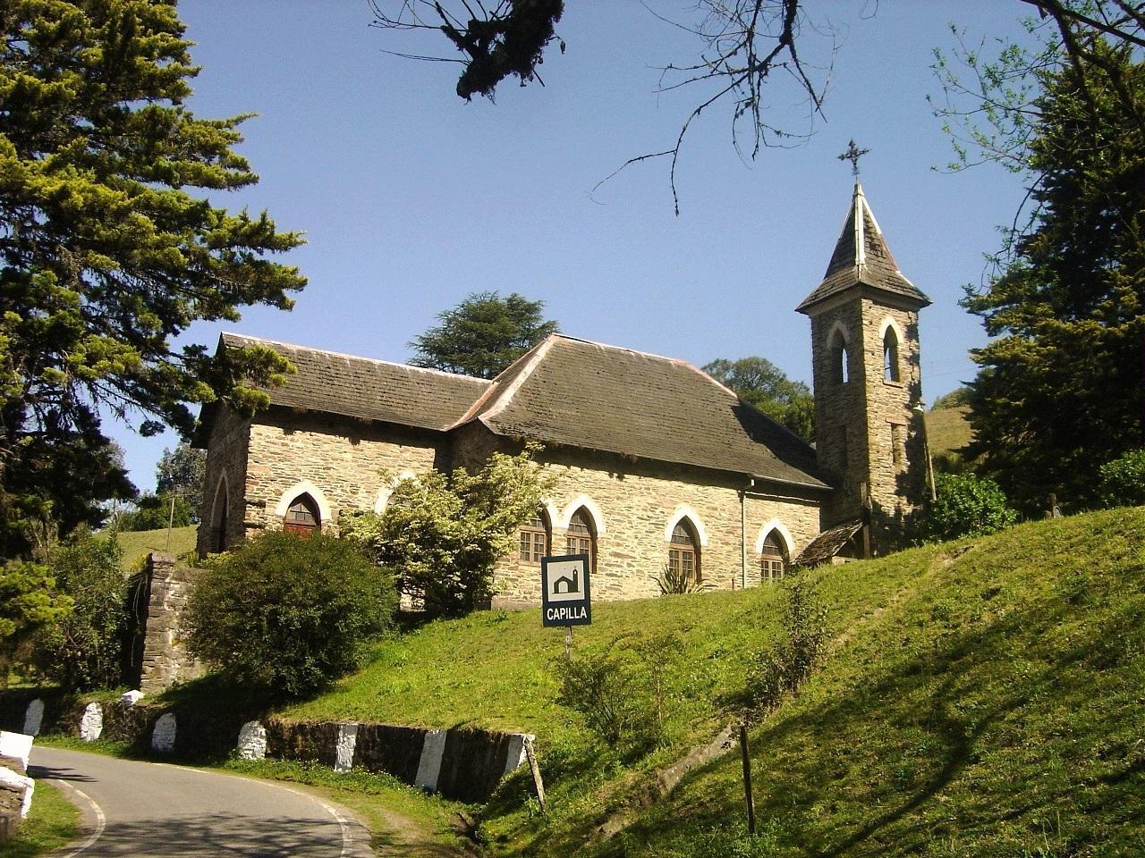 author: jlazarte image: old chapel in Villa Nougues, Tucumán Province, Argentina